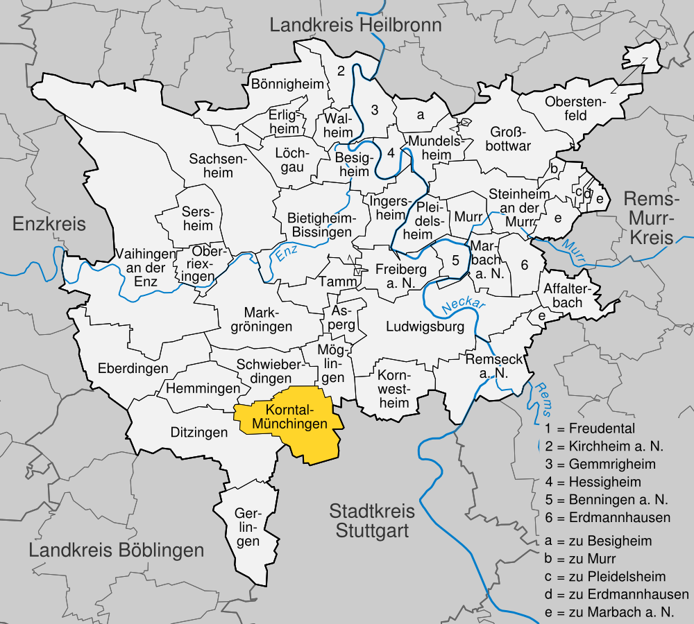 position of Korntal-Münchingen within distict of Ludwigsburg, Baden-Württemberg, Germany